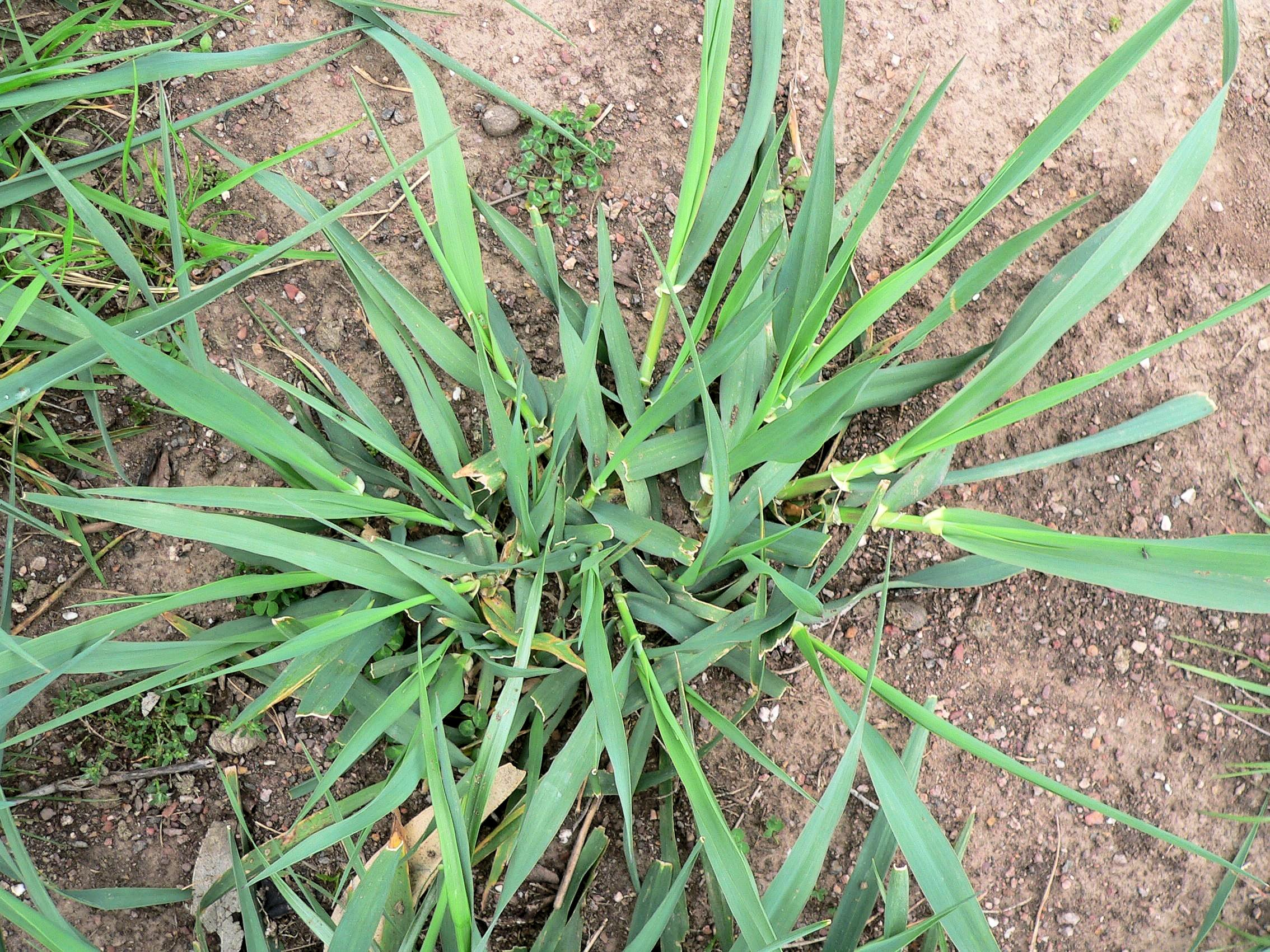 Leaves are broad, bluish-green, hairless and rolled in the bud.